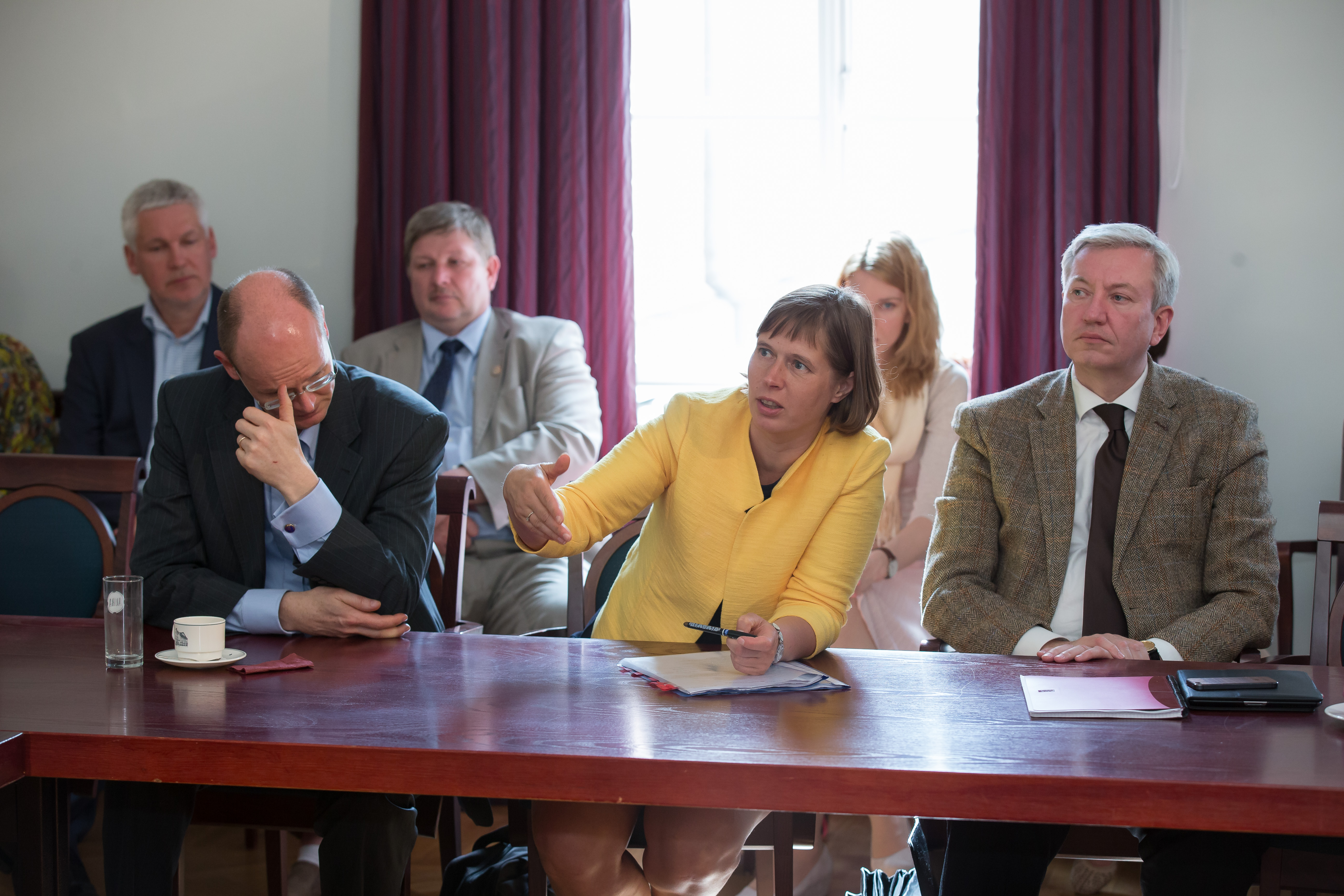 Council of the University of Tartu seminar "Risk management and developing of entrepreneurship inside the university". Aku Sorainen, Kersti Kaljulaid, Vahur Kraft.